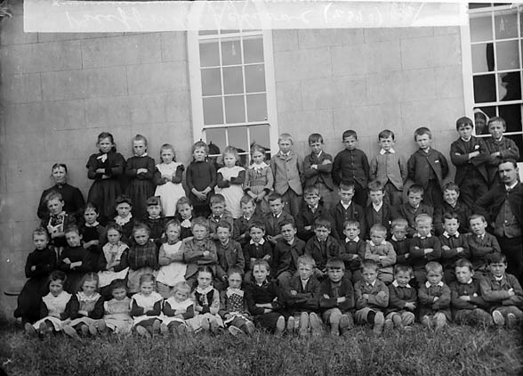 1 negative : glass, dry plate, b&w ; 12 x 16.5 cm.